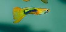 A guppy at the aquarium